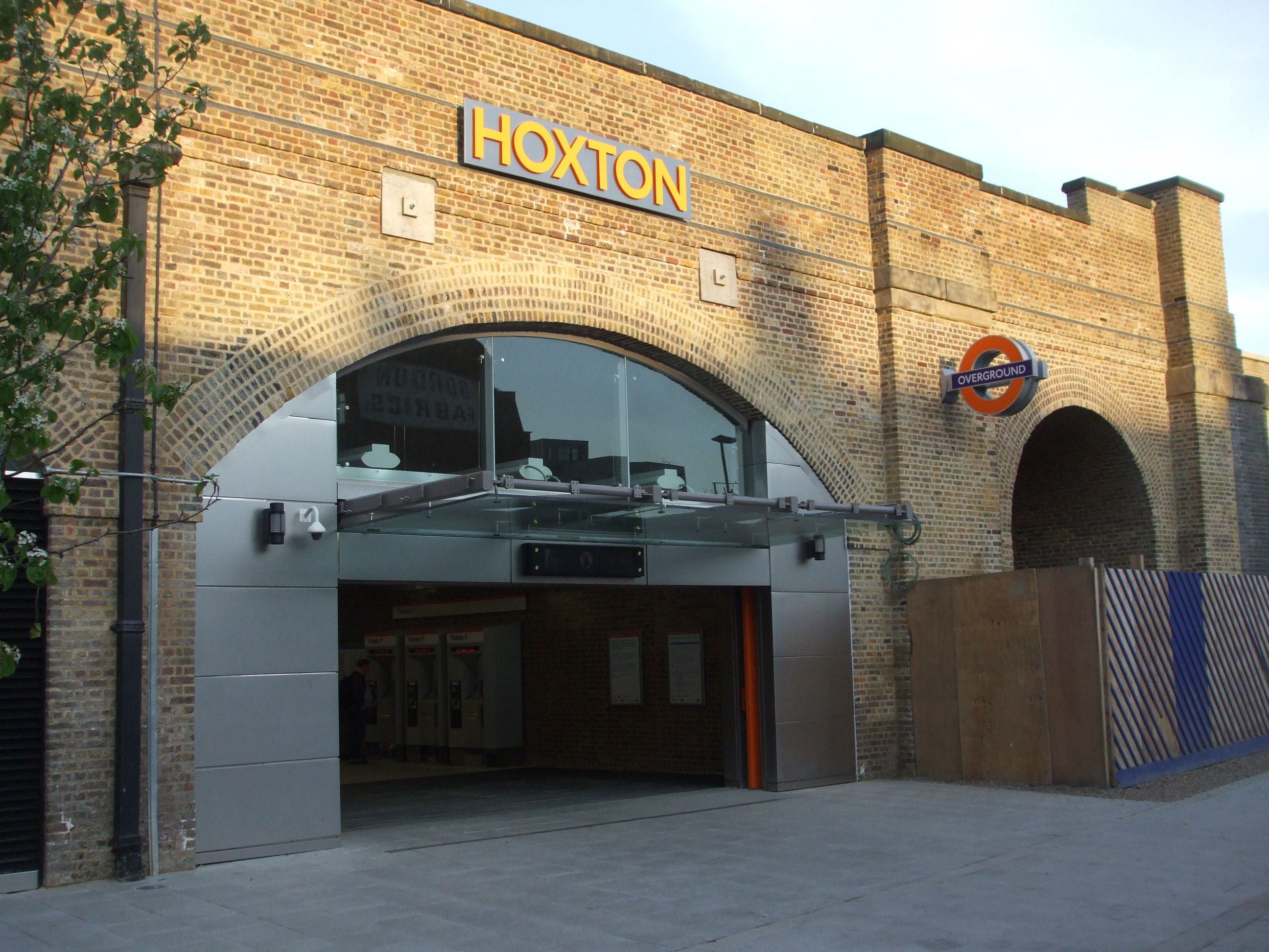 Hoxton station western entrance on day of opening as part of the London Overground network